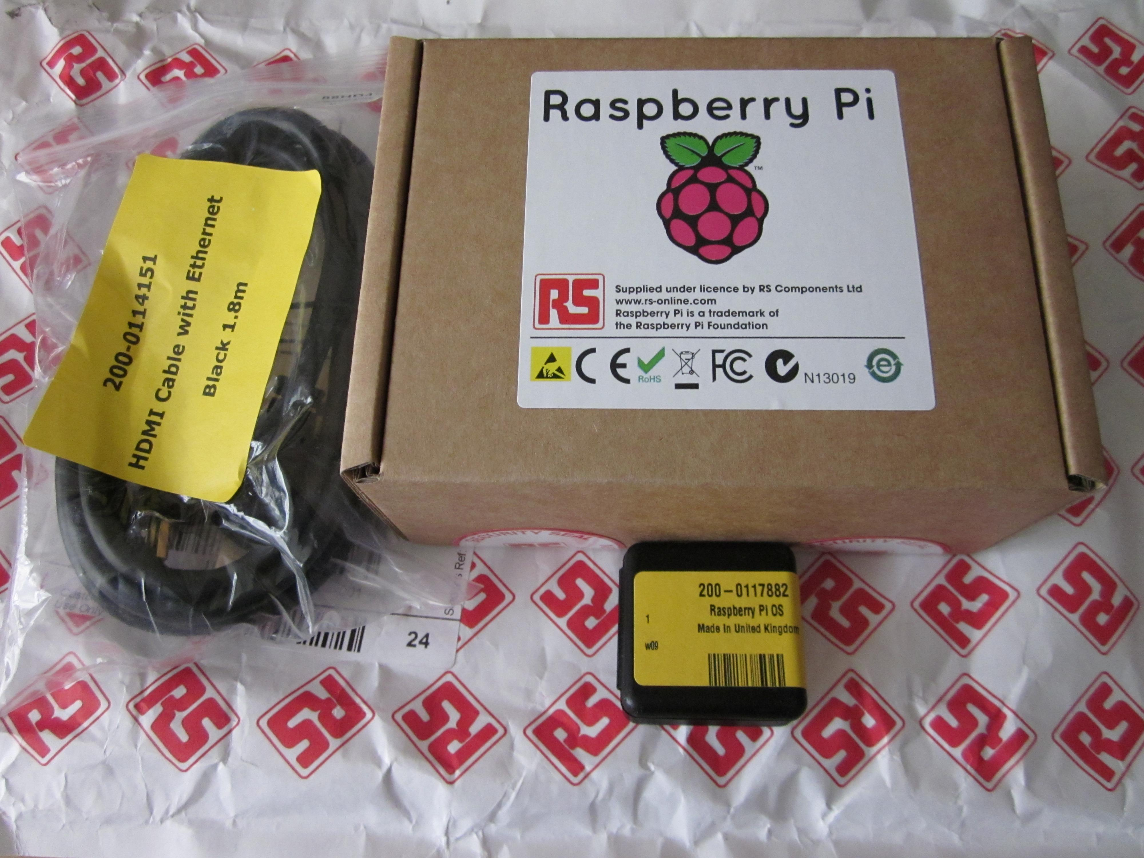 The Raspberry Pi is a cheap single board computer that is designed to be used for educational purposes. This one came from UK supplier RS Components Limited. A SD card preloaded with a Operating System and a HDMI cable were also ordered at the same time.